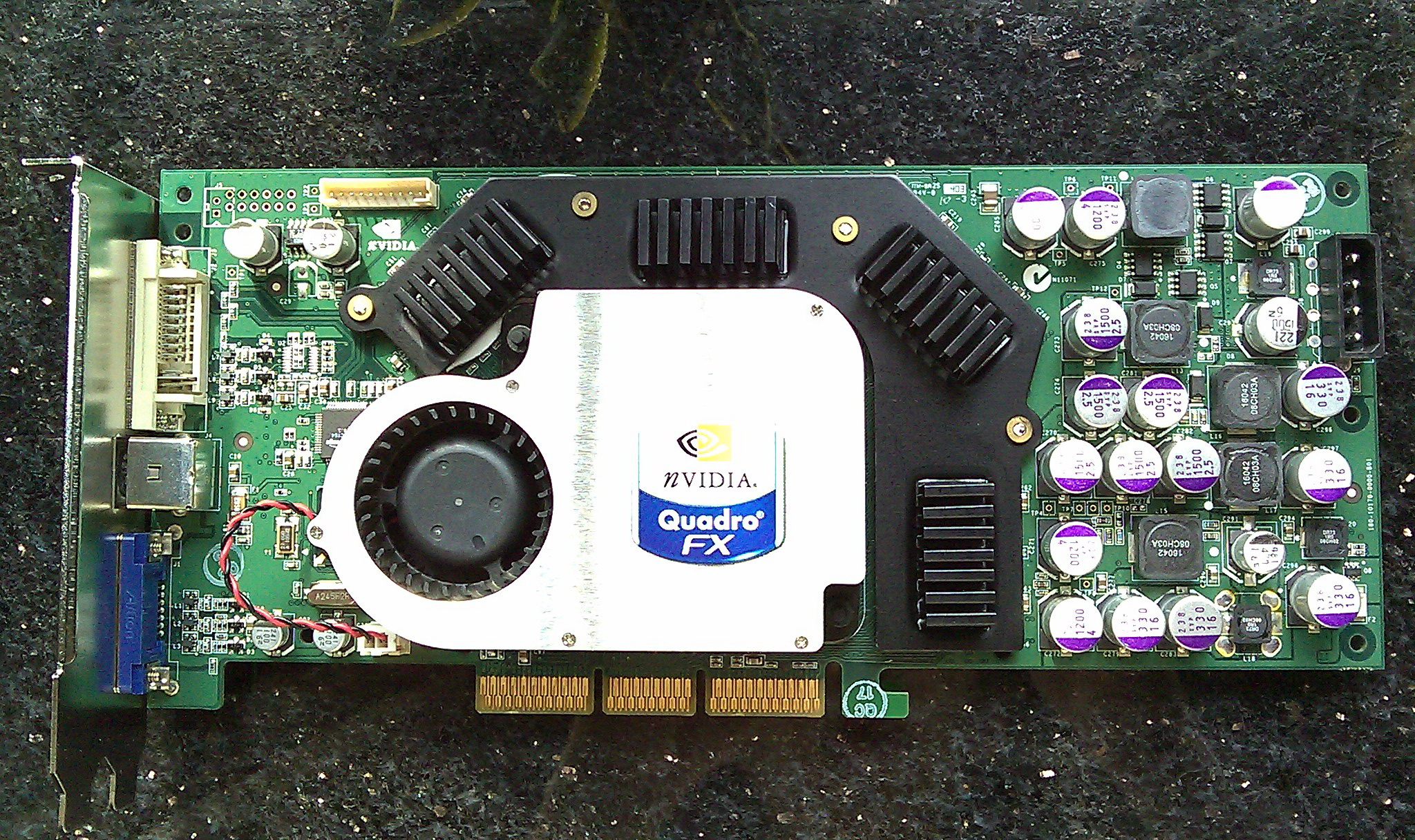 NVIDIA Quadro FX 3000 ES Graphic card